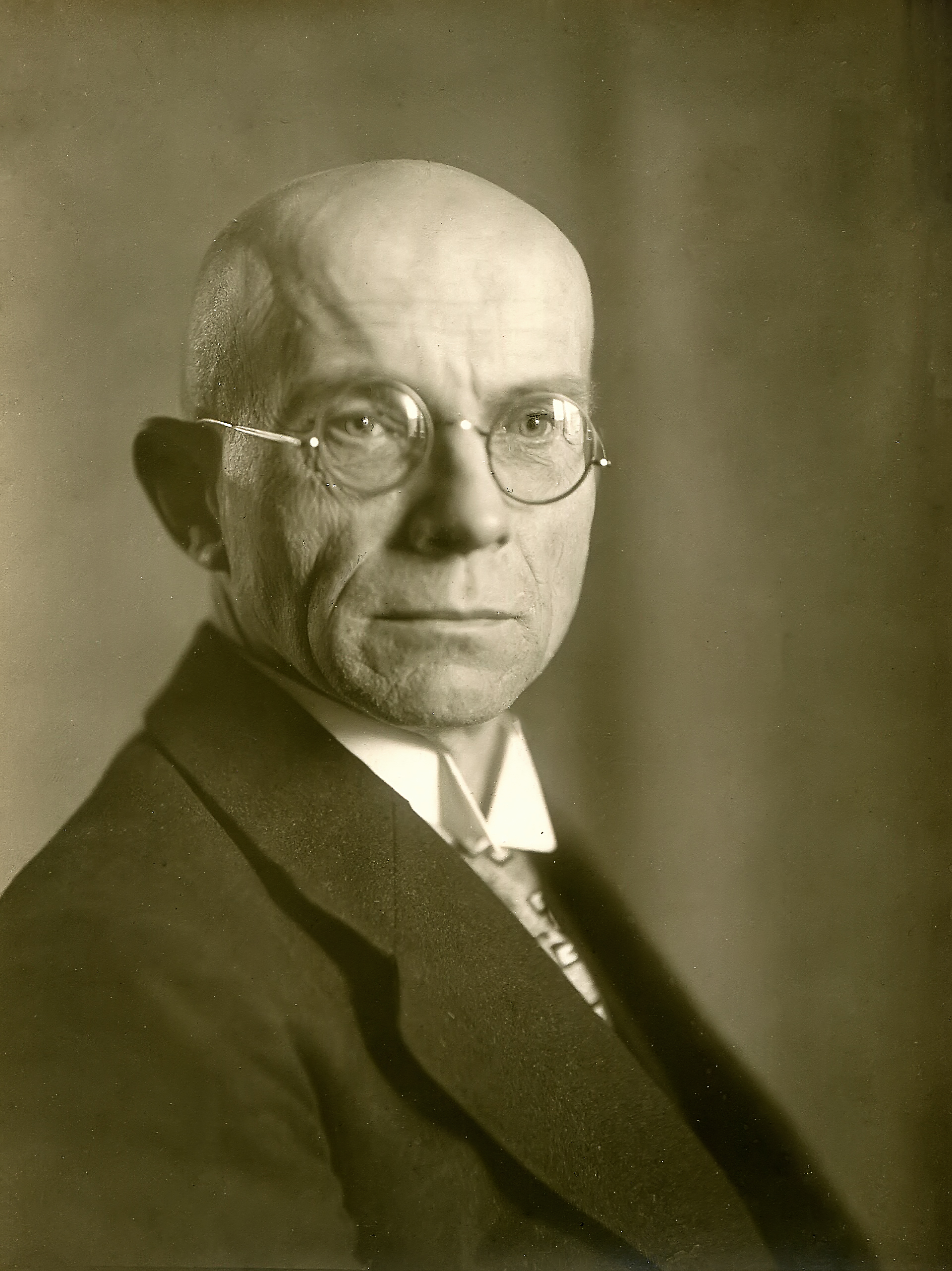 Wolfgang Scharenberg, Rechtsanwalt und Notar